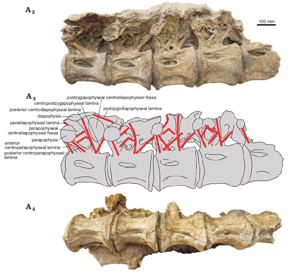 Sauropod PIN 3837/P821 from Nemegt, Gobi Desert, Mongolia; Nemegt Formation, Maastrichtian (Upper Cretaceous); dorsal vertebrae 6–10 in lateral view (A2, the actual photo, A3, explanatory drawing) and in ventral view (A4).